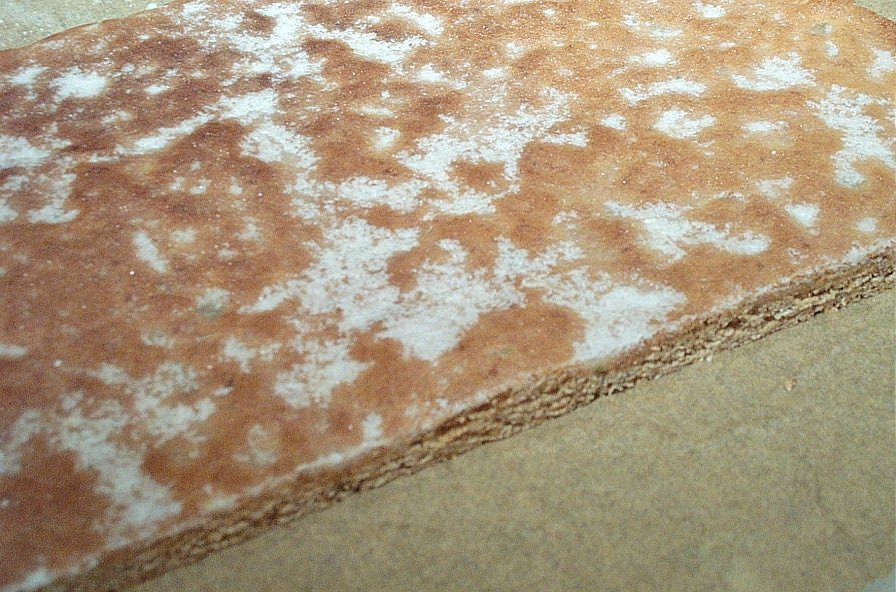 Basler Läckerli, a typical swiss bakery from Basle